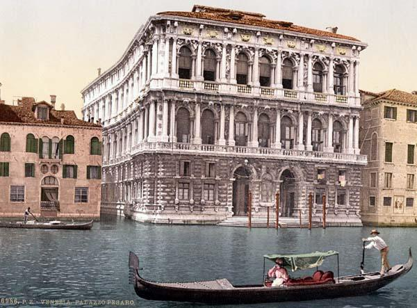 Pesaro Palace, Venice, Italy 1890s. Color photochrome print.